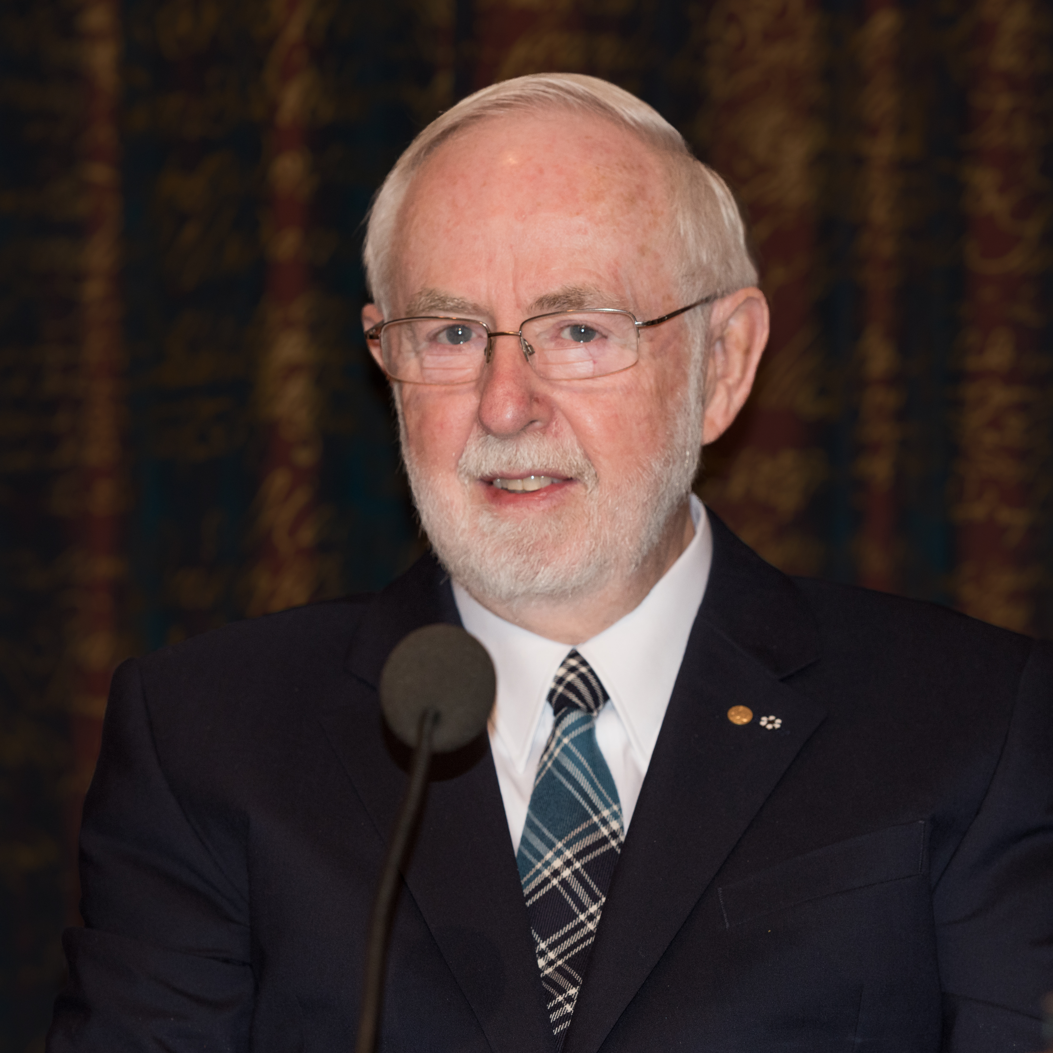 Arthur B. McDonald, Nobel Laureate in physics in Stockholm December 2015